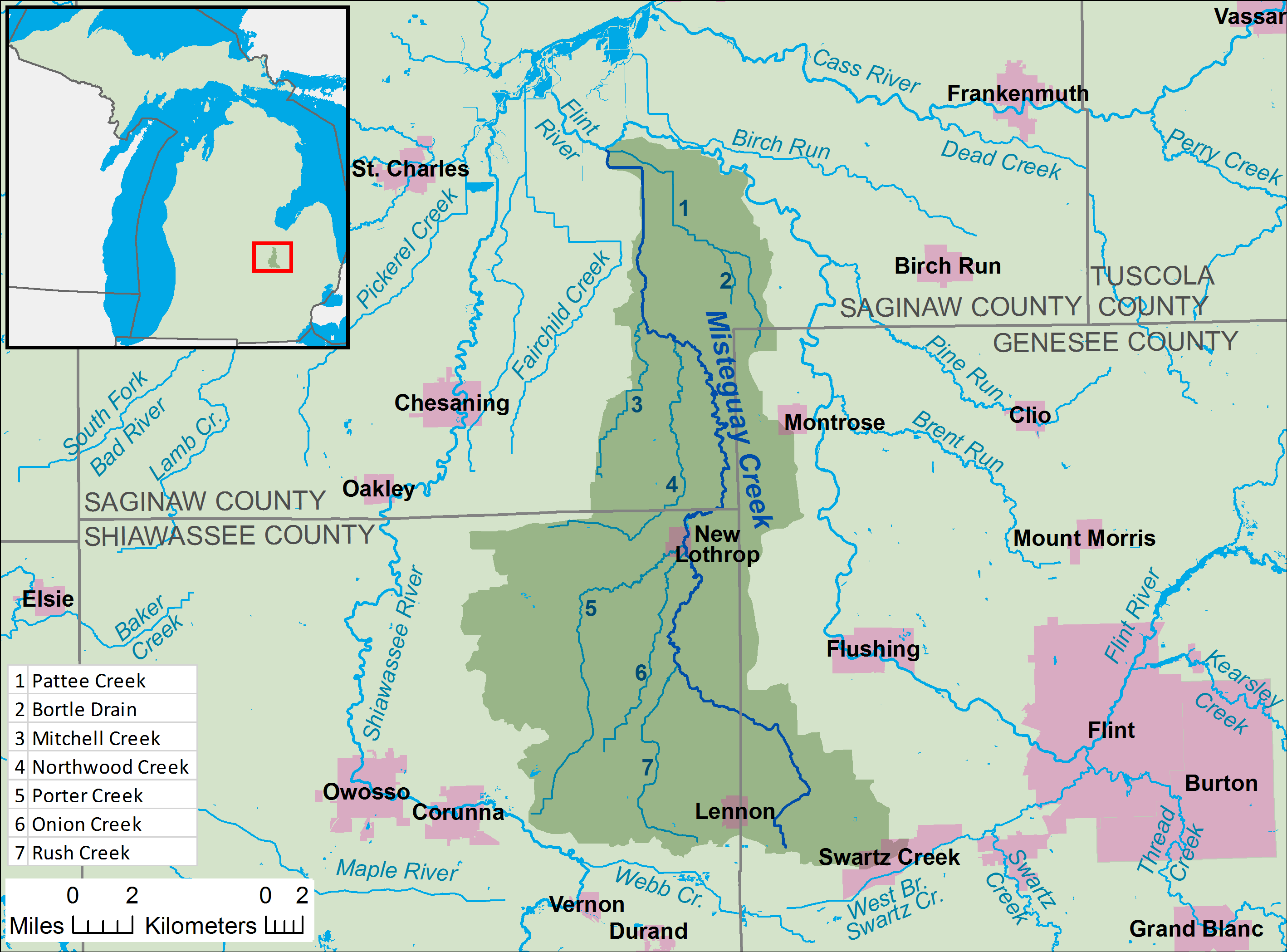 A map of Misteguay Creek and its watershed (USGS HUC-12 codes 040802040505, 040802040509, 040802040512, 040802040506, 040802040507, 040802040508), in Genesee, Shiawassee, and Saginaw counties in Michigan